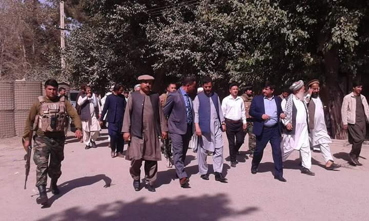 Mr. Jan mohammad nabizada director of boarders and tribal affairs of takhar is talking with Mr. Yasin zia governer of the mentioned province.